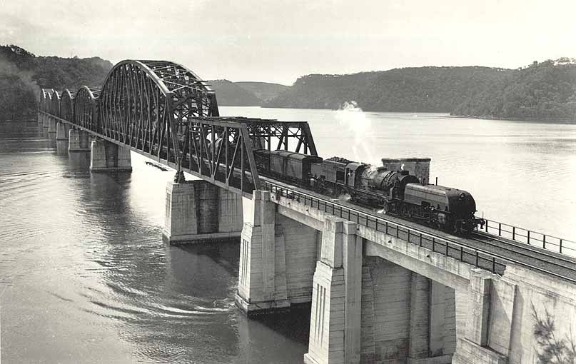 NSWGR AD60 Class Locomotive